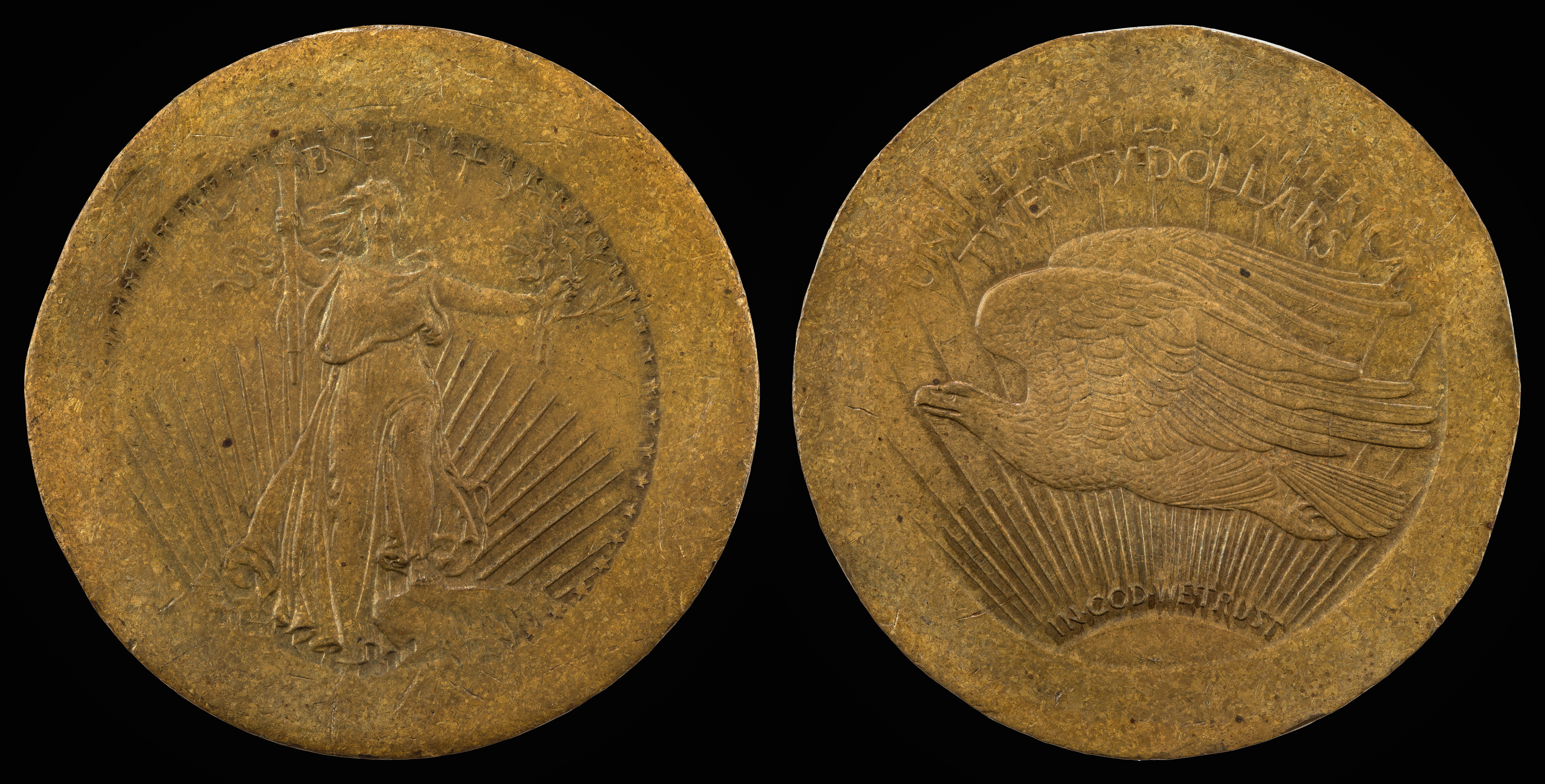 1908-G$20-Saint Gaudens double sided die trialTrial impression in brass, 44m, 38.331gJN2015-6792-93